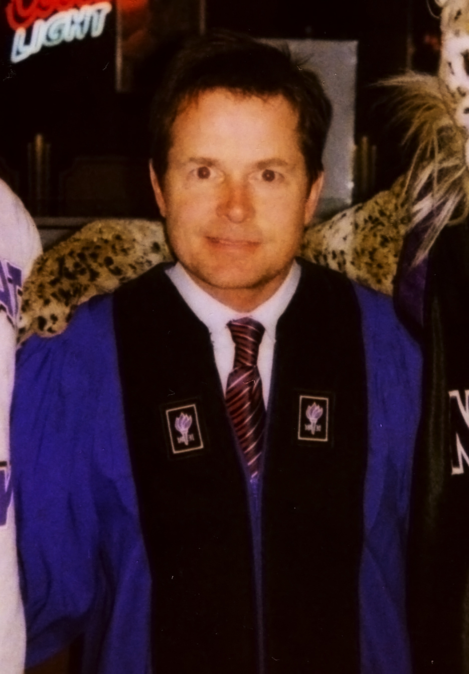 Michael J. Fox at NYU, where he received an honorary doctorate